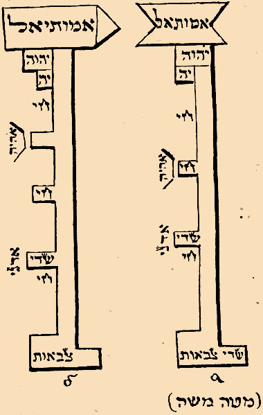 Illustration from Brockhaus and Efron Jewish Encyclopedia (1906—1913)